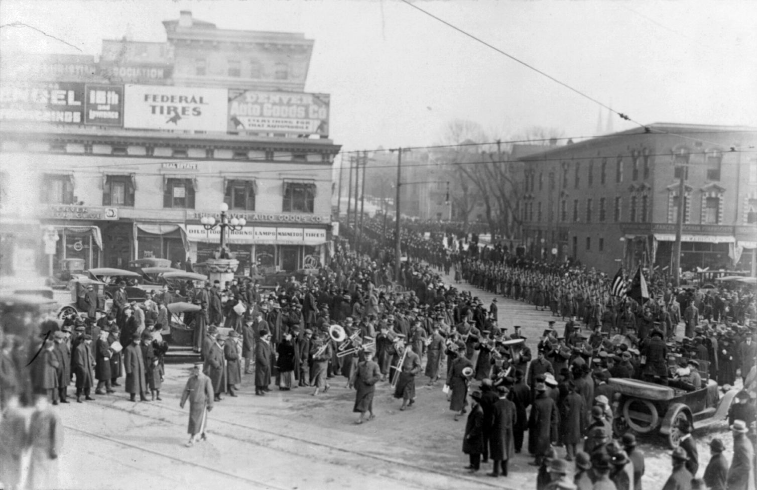 Funeral parade of Buffalo Bill with marching band & soldiers, Denver, Colorado